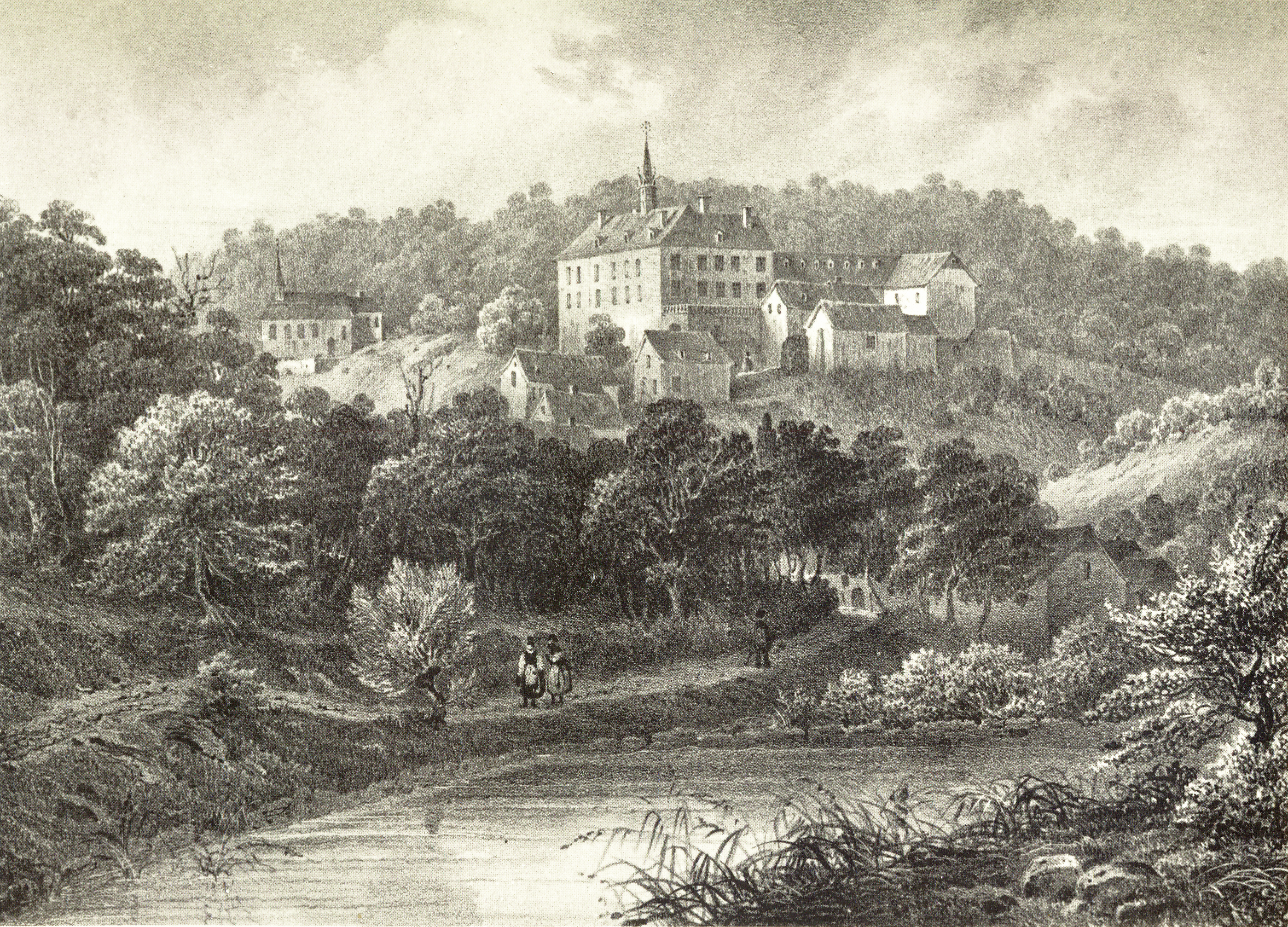 Vue of Fischbach. Drawing.